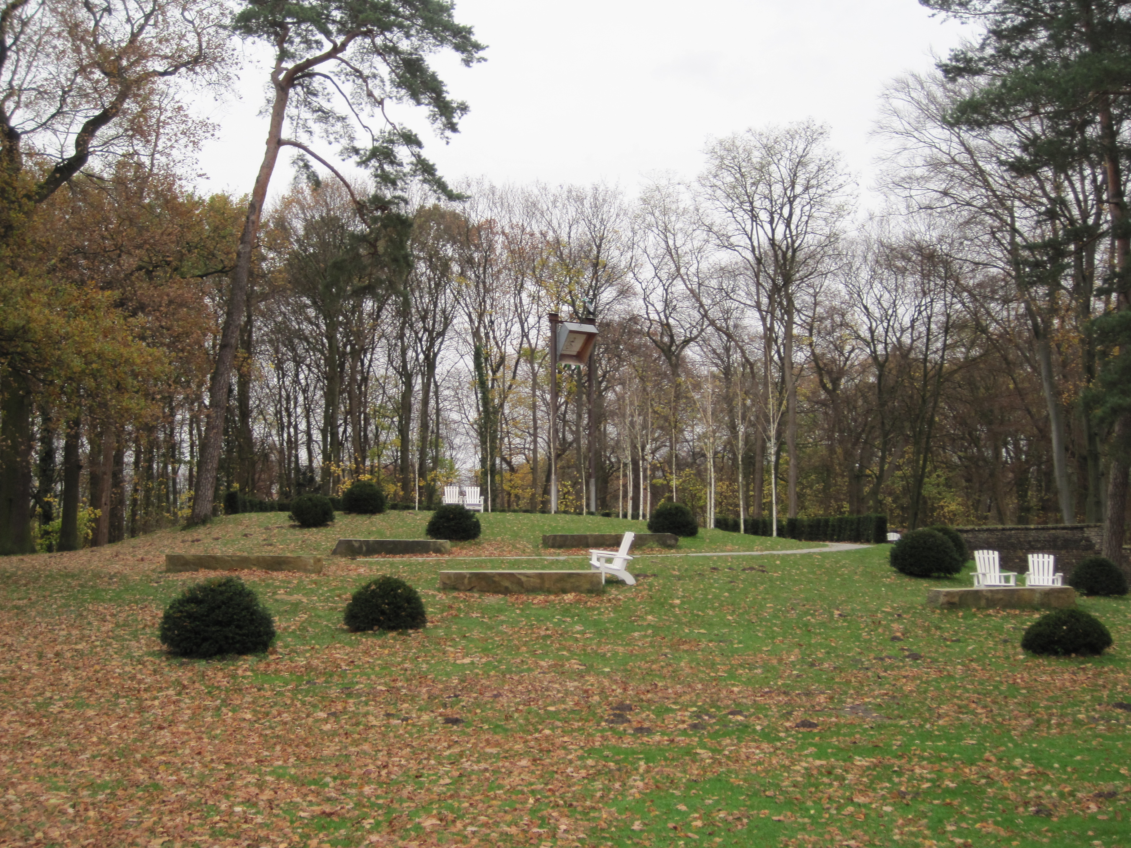 Spa gardens, right behind the Kurhaus.